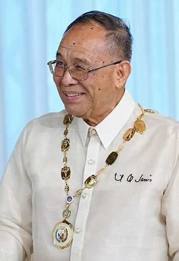 President Rodrigo Roa Duterte congratulates Dr. Emil Javier, who was conferred with the Order of National Scientist at the Malacañan Palace on January 7, 2020. KING RODRIGUEZ/PRESIDENTIAL PHOTO